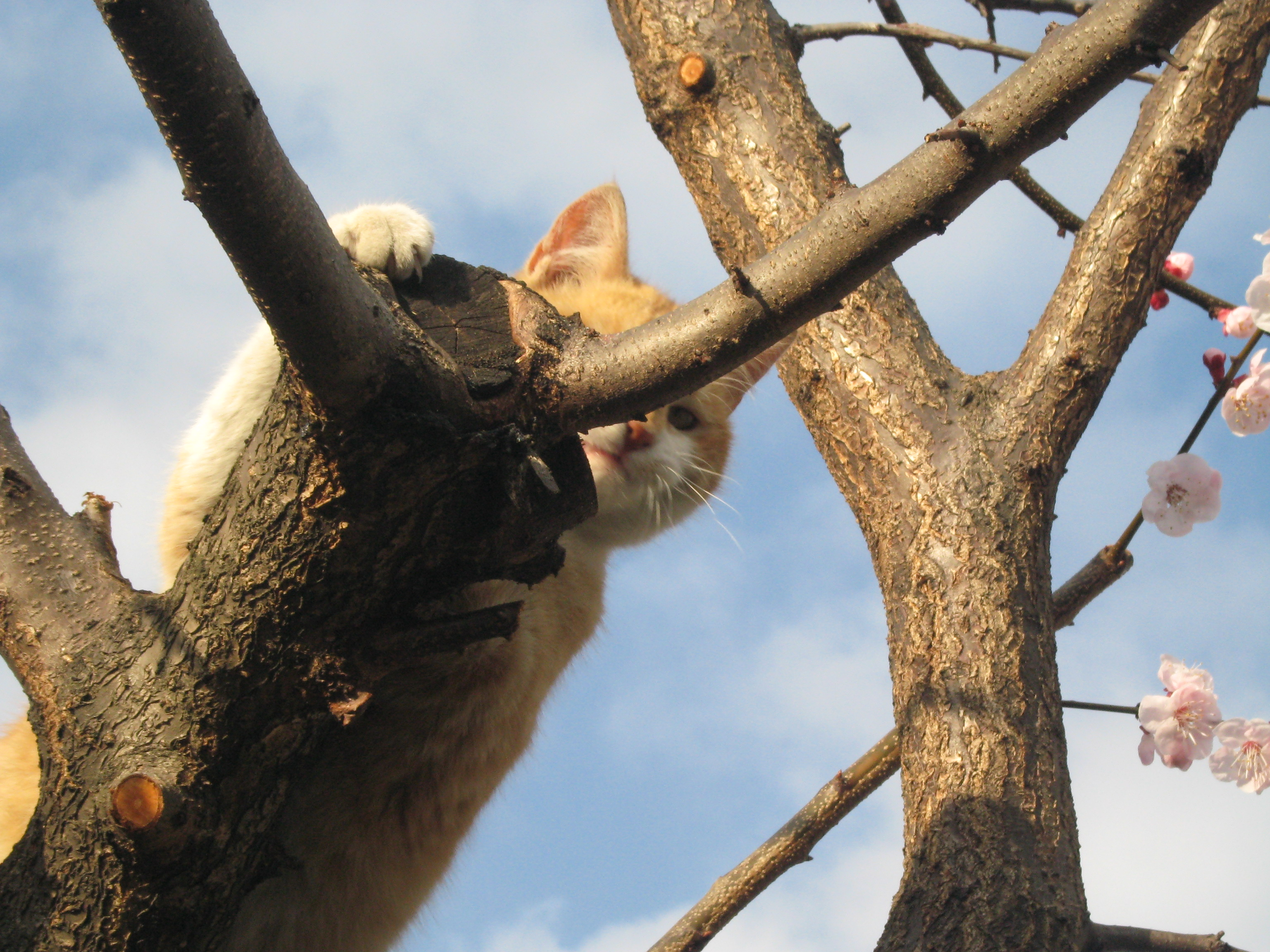 A cat on the tree.